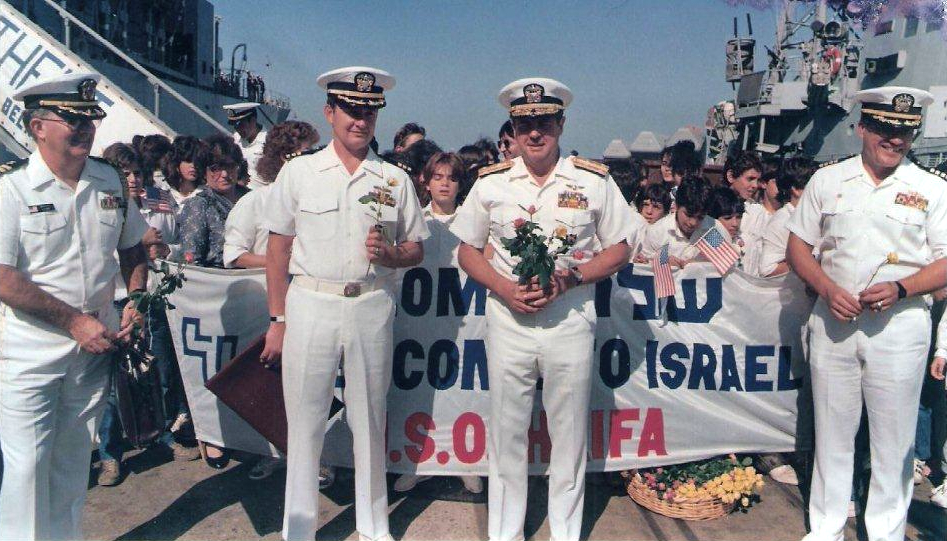 USO Haifa (Israel) welcomes officers and sailors from two U.S. Navy ships. The first line on the banner includes the word "Shalom" in Hebrew and